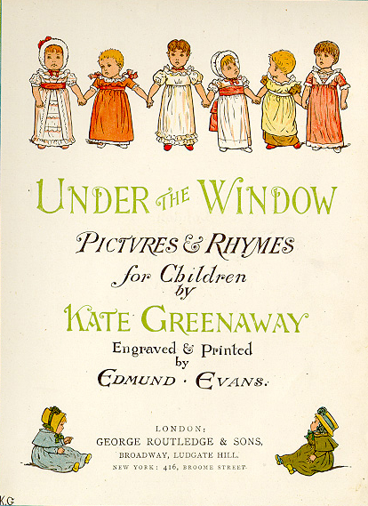 Title page taken from Under the Window: Pictures & Rhymes for Children illustrated by Kate Greenaway, engraved by Edmund Evans.